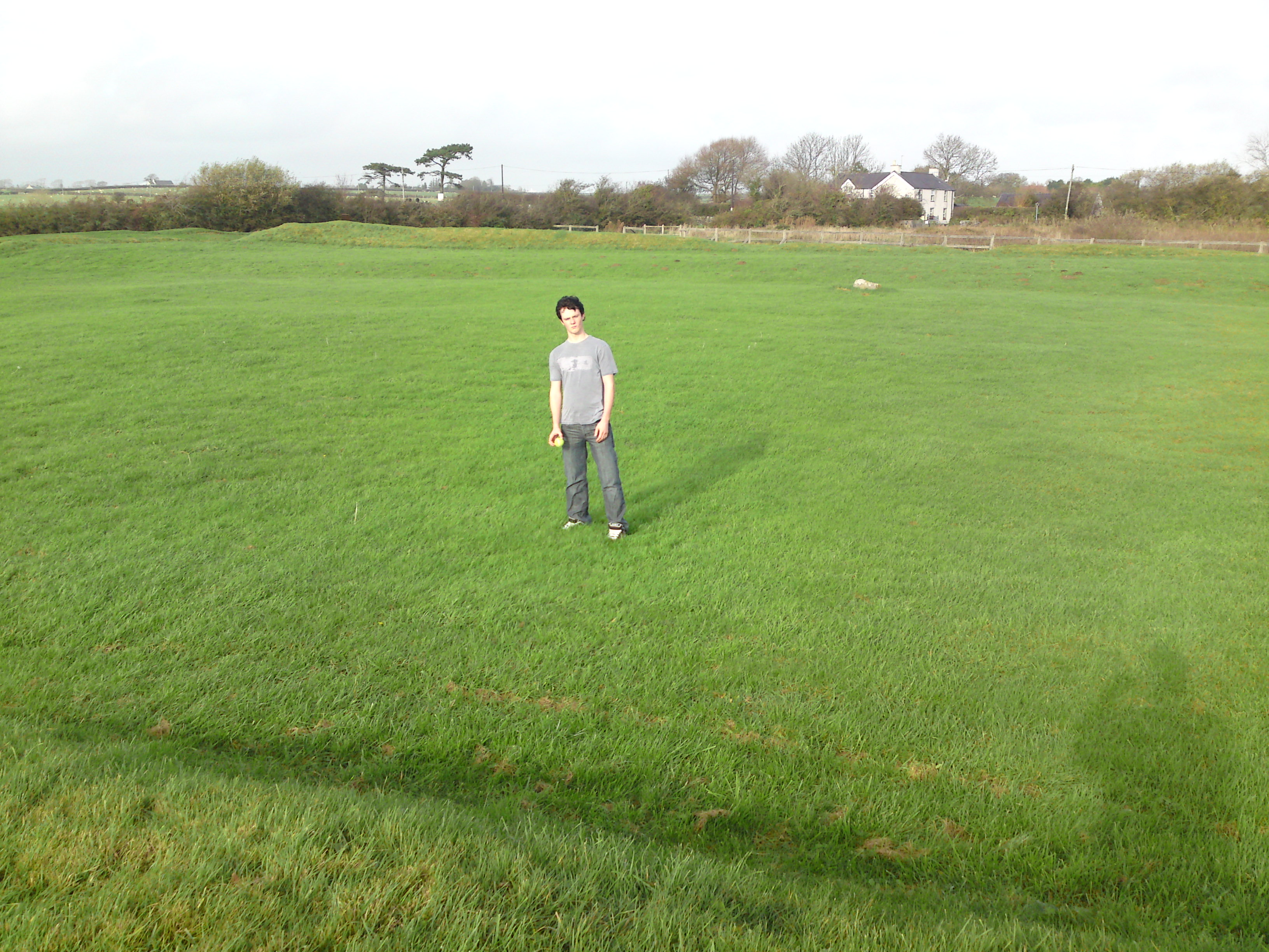 Caer Lêb, the central enclosure